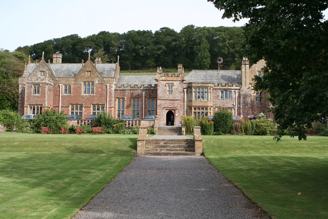 Halsway Manor, Bicknoller, Somerset, England. Halsway Manor is a €˜National Centre for Traditional Music€™. The present building is largely neo-Tudor, dating from 1875. It has been a residential centre for folk song and dance since 1965.